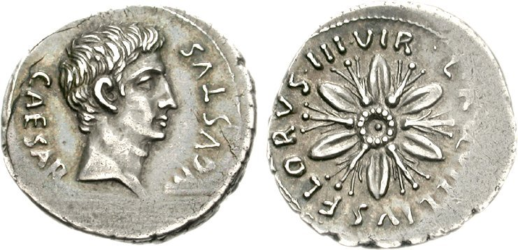 Augustus. 27 BC-AD 14. AR Denarius (4.00 g, 10h). Rome mint. L. Aquillius Florus, moneyer. Struck 19/8 BC. CAESAR AVGVSTVS, bare head right / L • AQVILLIVS • FLORVS • III • VIR •, open flower, displaying six petals, stamen, and pistil. RIC I 309; RSC 364; BMCRE 46-8 = BMCRR Rome 4553-5; BN 183-5. EF, wonderful gray and iridescent toning, an area of flat strike along edge. An amazing portrait. Rare. Ex Gilbert Steinberg Collection (Numismatica Ars Classica, 16 November 1994), lot 158; Numismatic Fine Arts XVI (2 December 1985), lot 328.